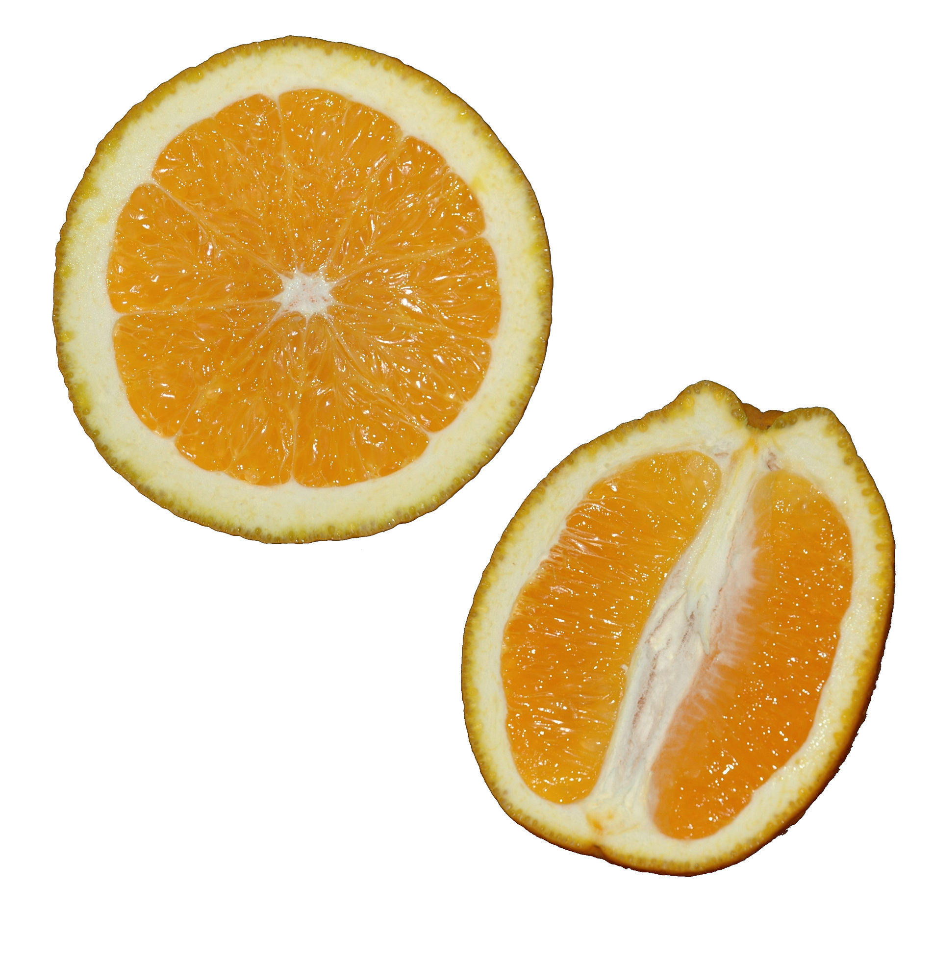 Orange cut crosswise and lenghtwise. My own photo, Kjetil Lenes.